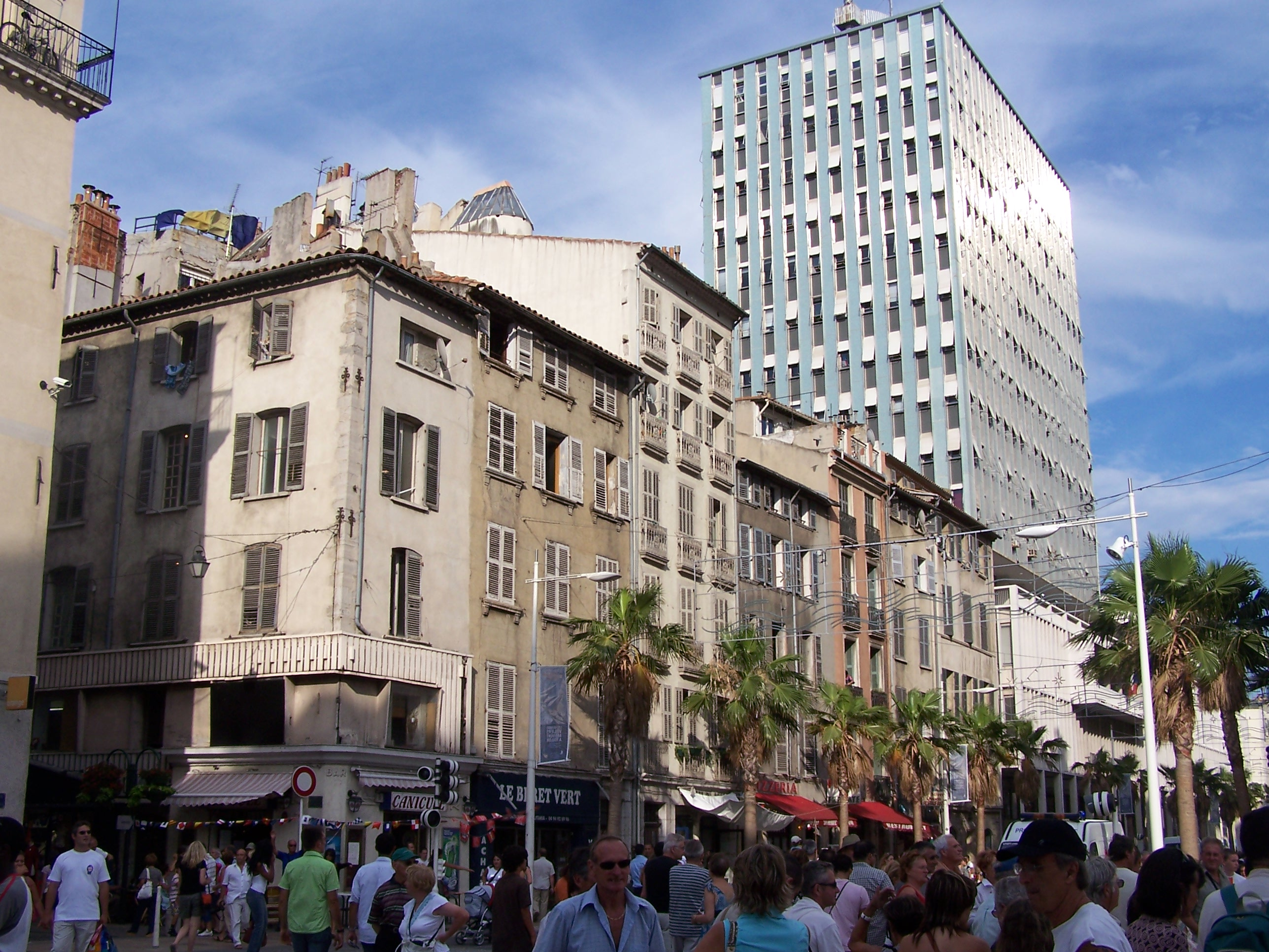 Town Hall of Toulon, France